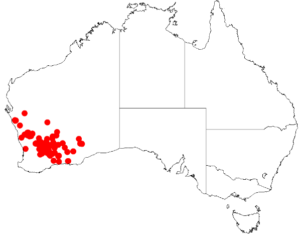 Scaevola restiacea occurrence data downloaded from Australasian Virtual Herbarium on 12 May 2019